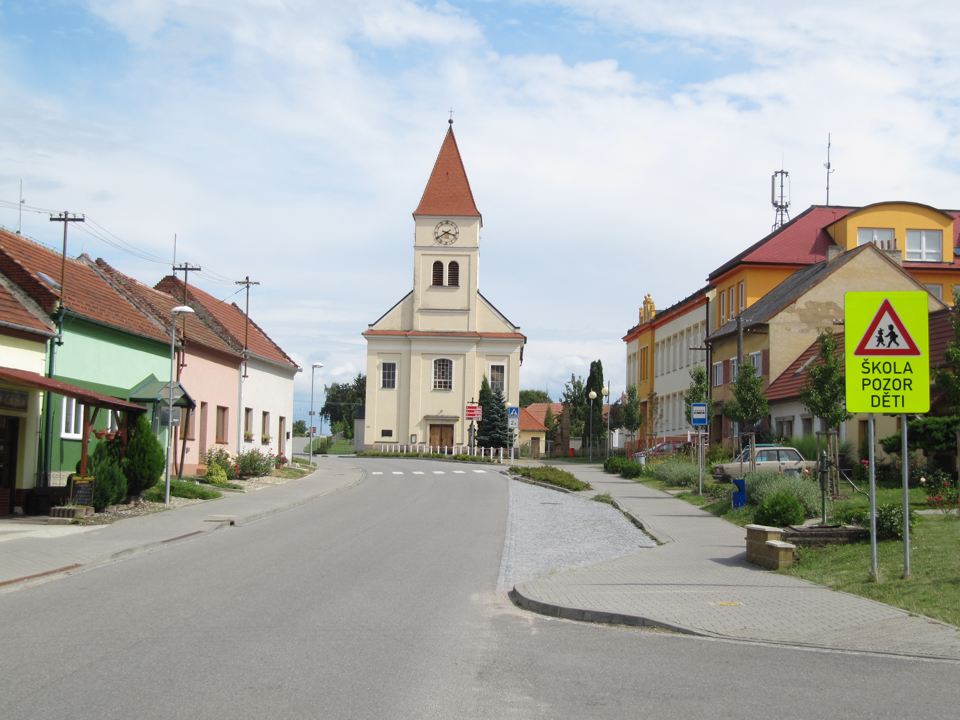 Ostrožská Nová Ves in Uherské Hradiště District, Czech Republic. Lhotská Street and church of St. Wenceslas.